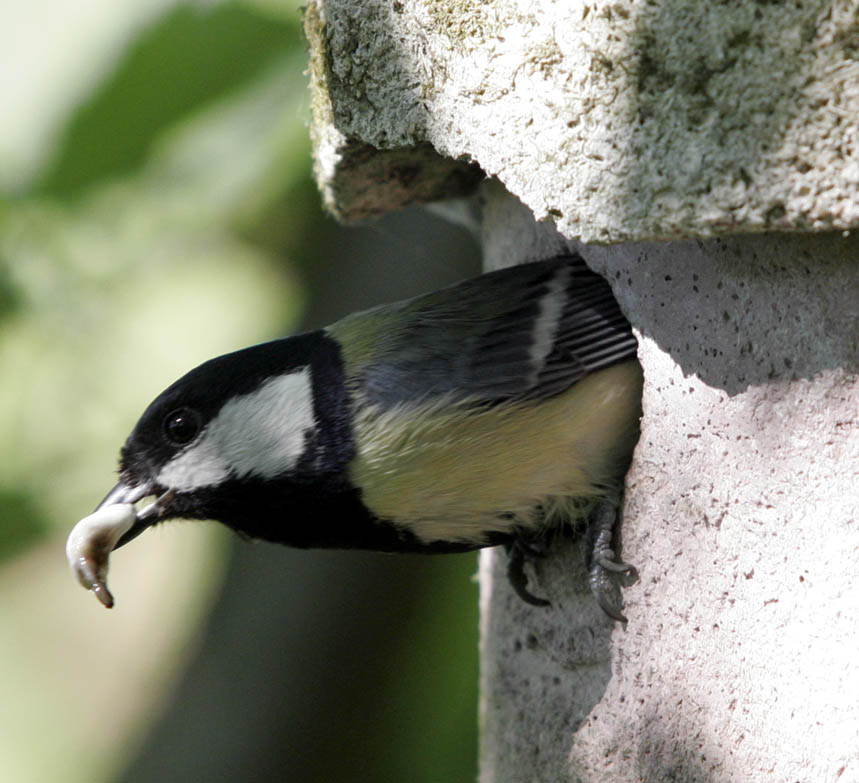 Great Tit (Parus major), adult bird leaving the nest with feces from one hatchling